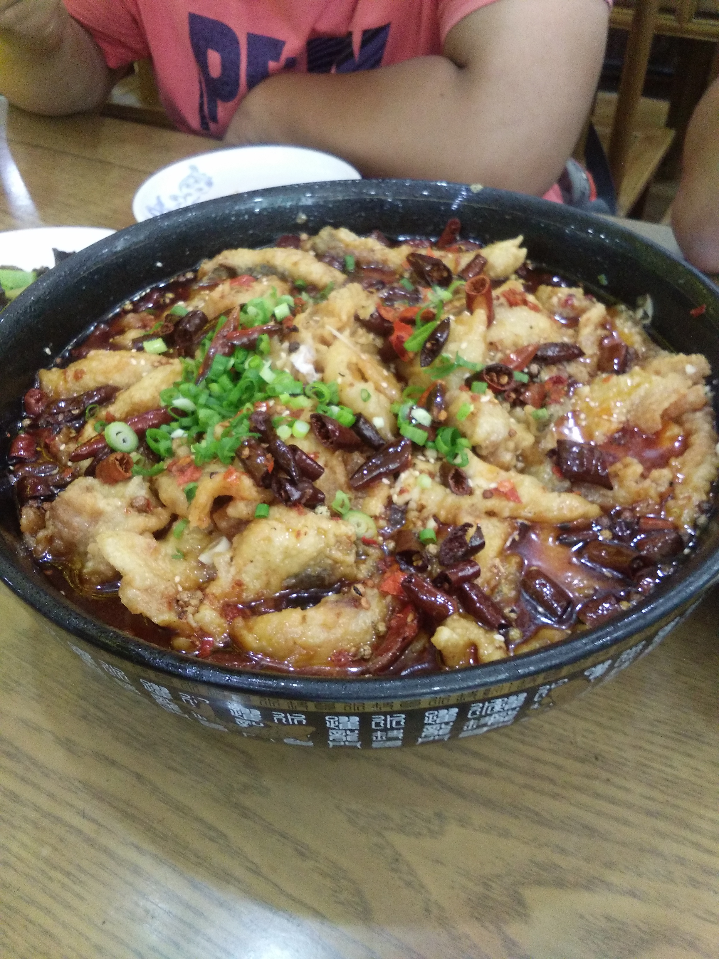 Sliced Fish in Hot Chili Oil